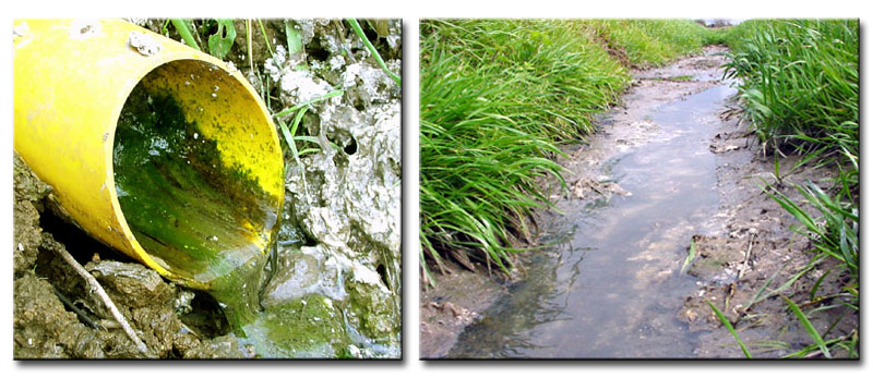 Pollution of water by nitrat, after drainage, in the north of the France